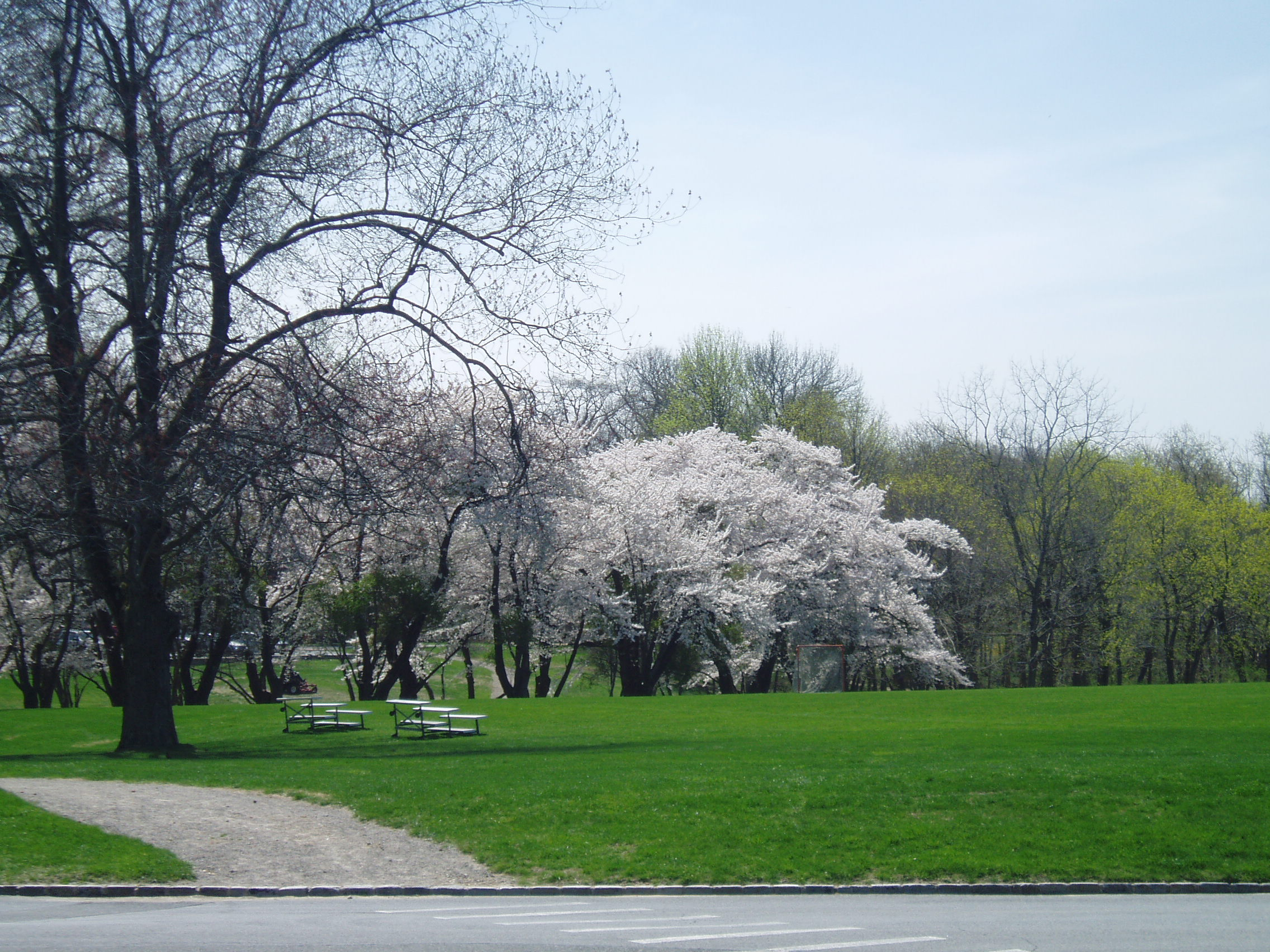 Portledge School's cherry blossom trees as seen from the Middle School across the east athletic field